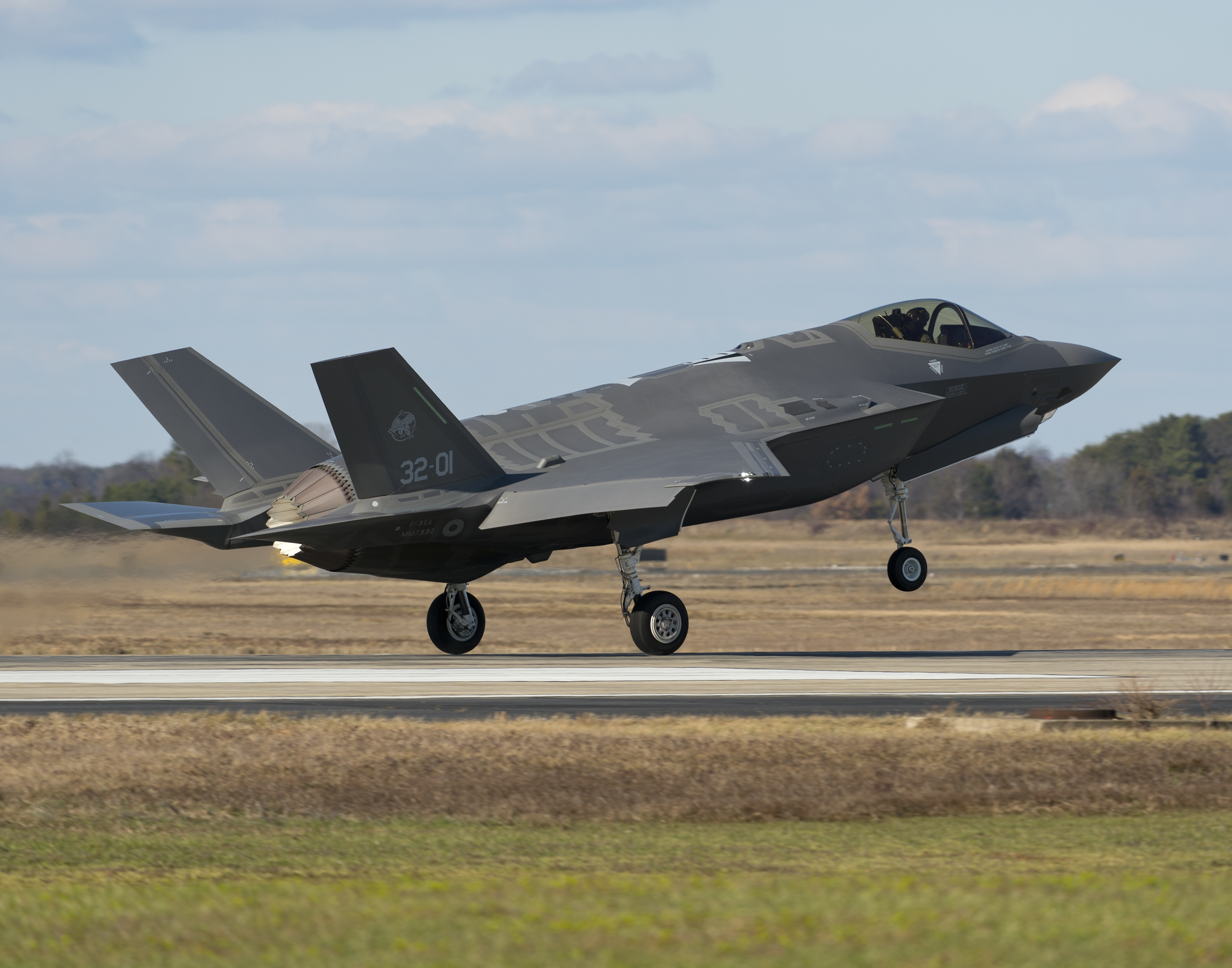 160205-O-ZZ999-909 NAS Patuxent River (February 5, 2016) An Italian Air Force (Aeronautica Militare) F-35A Lightning II aircraft made aviation history as it completed the very first F-35 trans-Atlantic Ocean crossing, arriving at Naval Air Station Patuxent River, Md., from Cameri Air Base, Italy, on Feb. 5 at 2:24 p.m. EST. (U.S. Navy photo courtesy Andy Wolfe/Released)